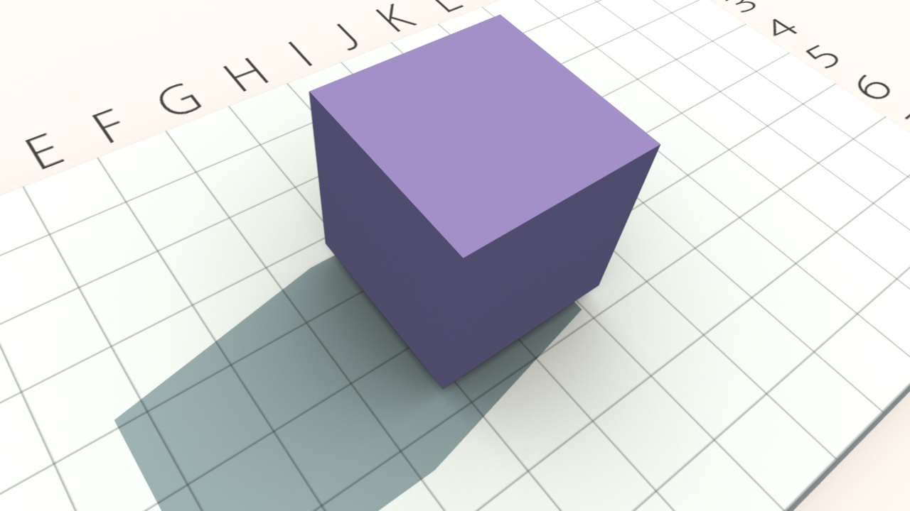 MotionParallax3D display - user POV